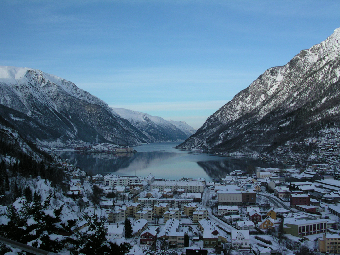 Centre of Odda municipality (Odda town) photographed in february 2004 by Gunleiv Hadland (also the uploader). Odda is a municipality in Hordaland, Norway. The fjord Sørfjorden in the background.